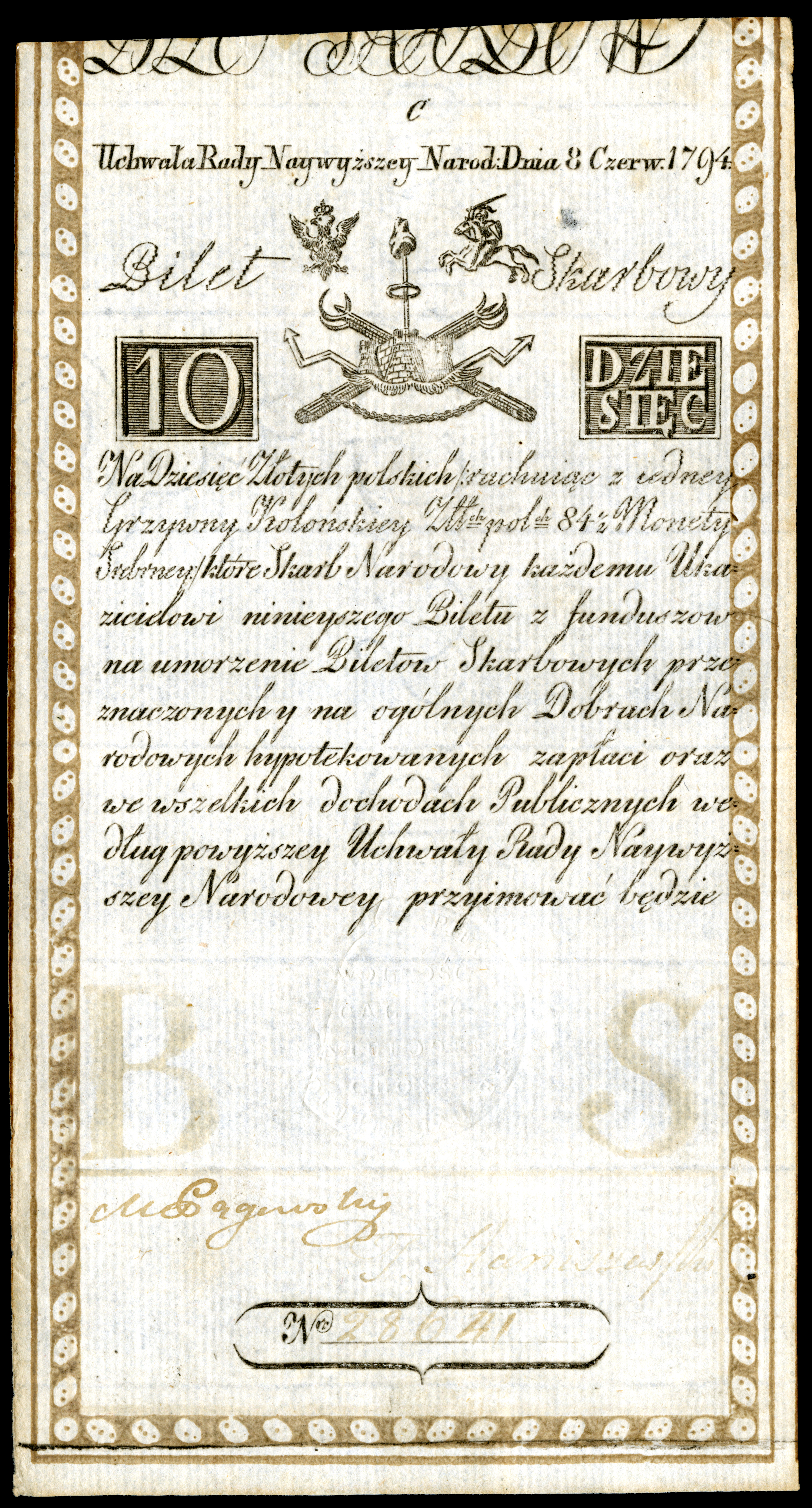 Bilet Skarbowy-10 Zlotych (1794 First Issue) Issue date 8-Jun-1794, signature of M. Pagowski